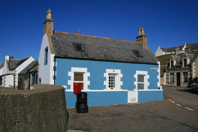 Sterlochy Street The Sky blue house in Sterlochy Street, Findochty.